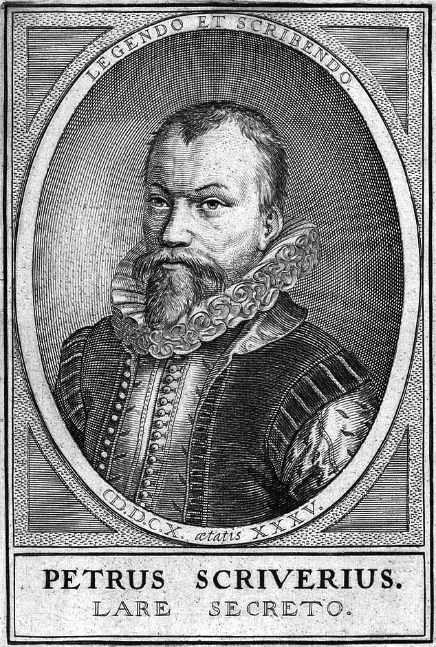 Petrus Scriverius was a Dutch historian and scholar.